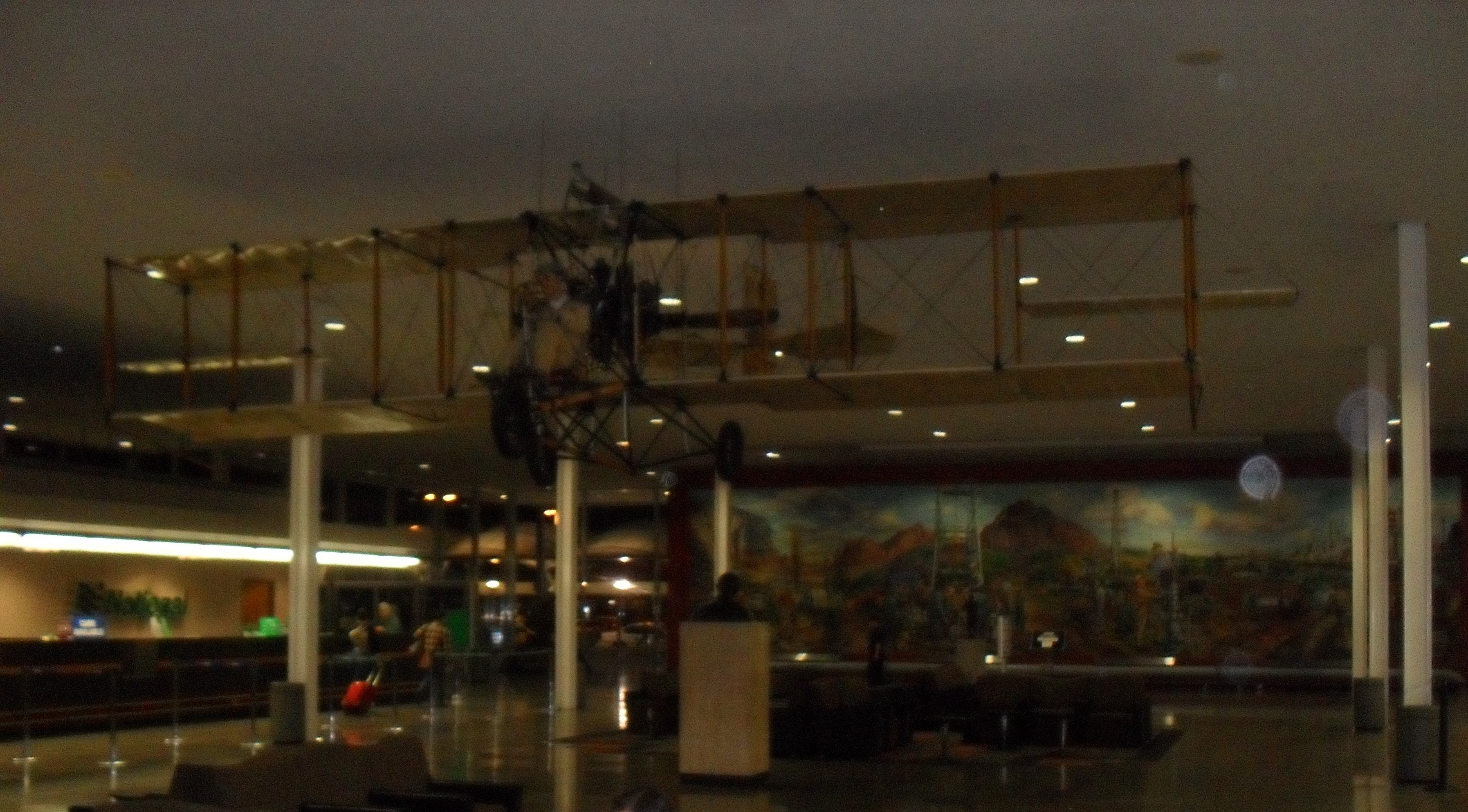 Early aircraft displayed in rental car section